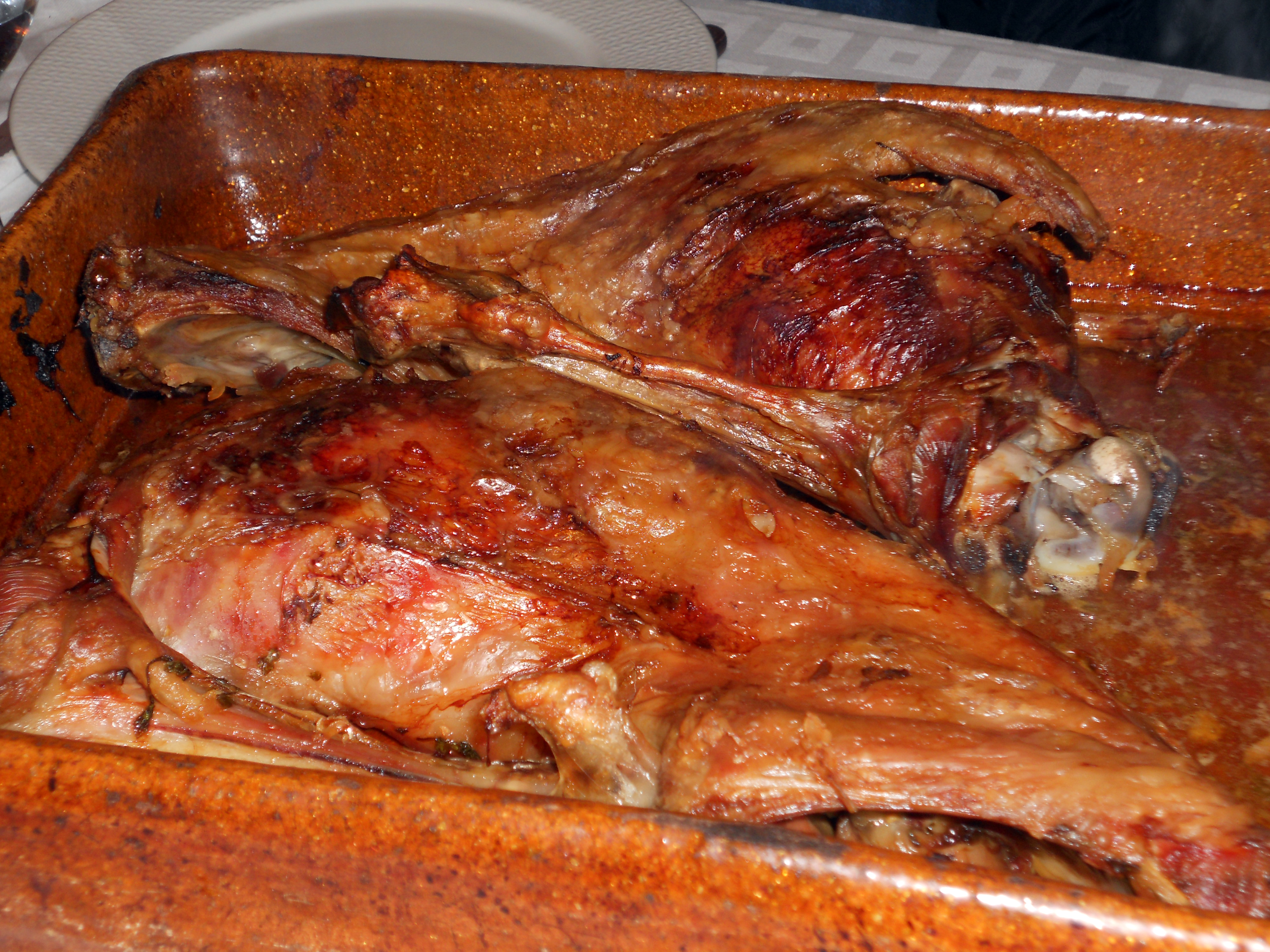 Roast lamb. Palentine traditional dish (Palencia, Castile and León).